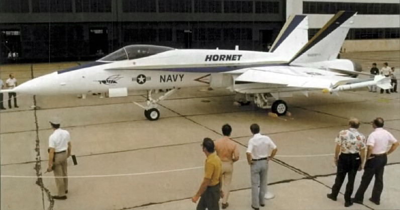 The first U.S. Navy McDonnell Douglas YF-18A Hornet (BuNo 160775) on display at the McDonnell Douglas plant at St. Louis, Missouri (USA), in October 1978.